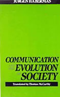 Scan of book cover of Habermas's "Communication and the Evolution of Society" by Lucidish